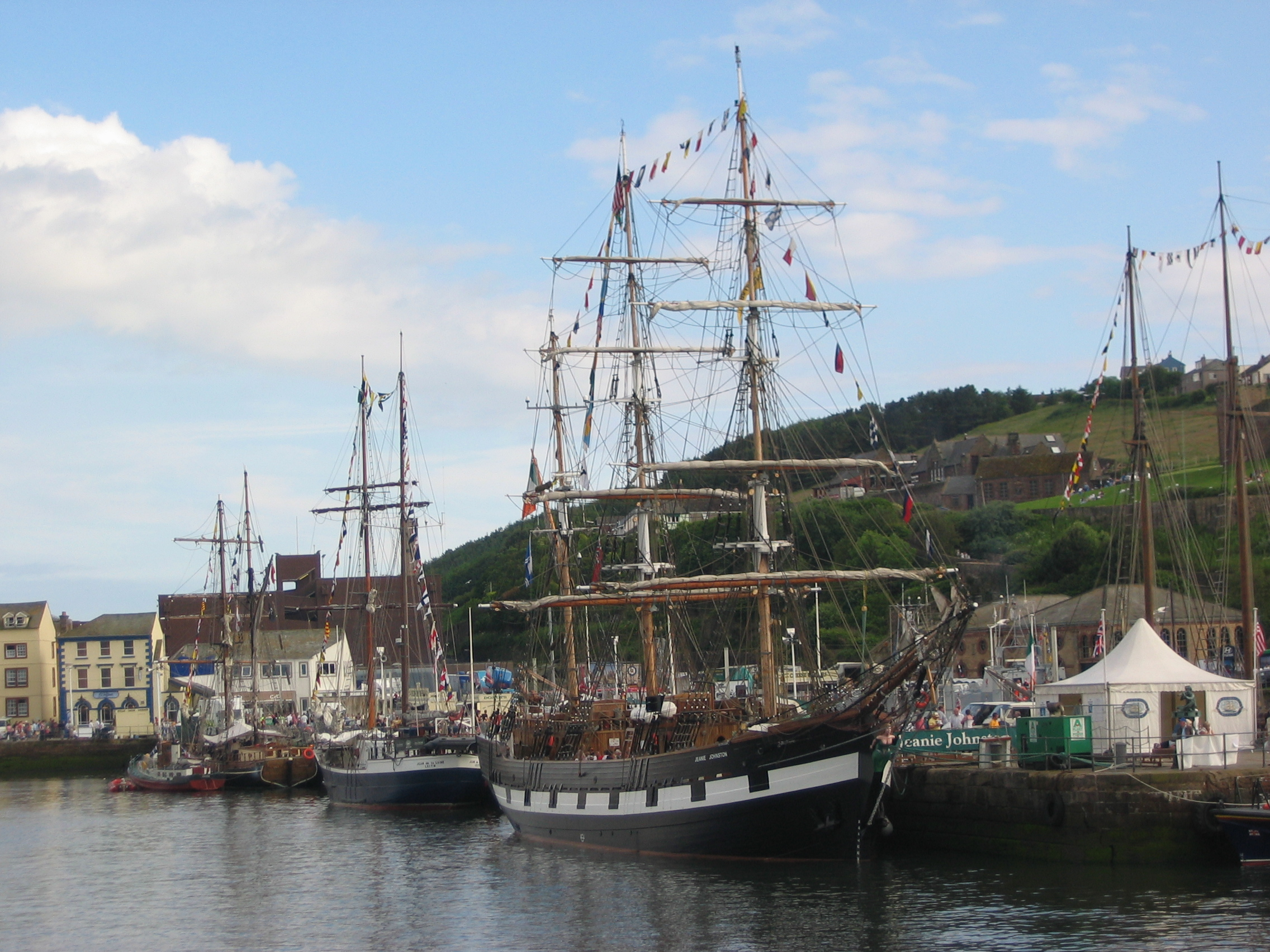 Whitehaven Maritime Festival, Cumbria, England